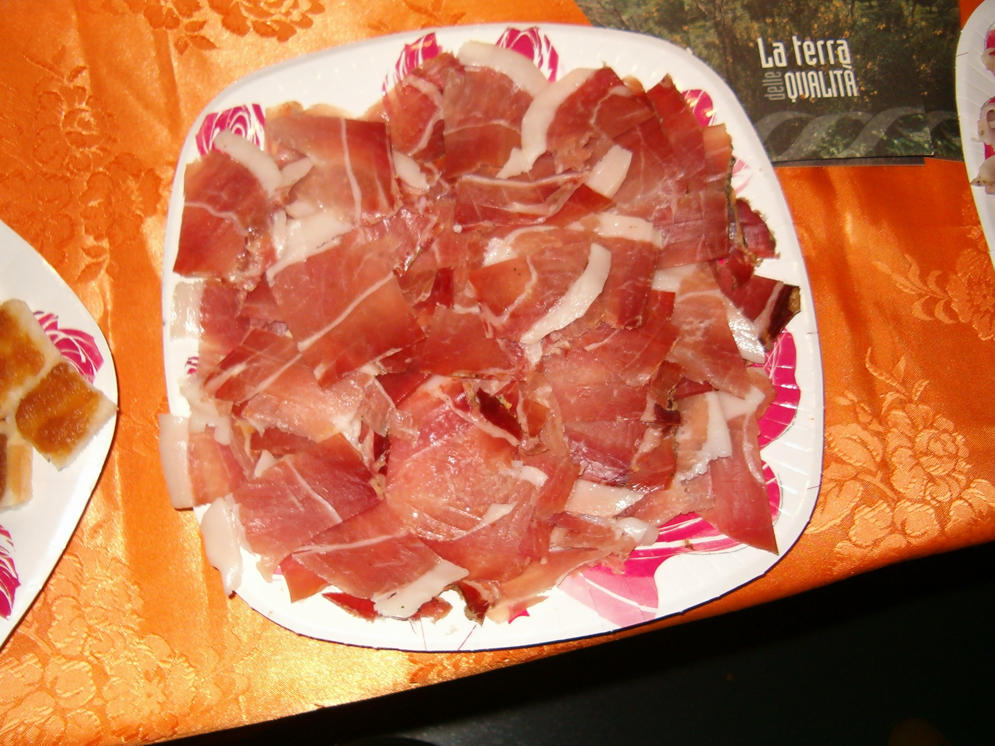 italian food